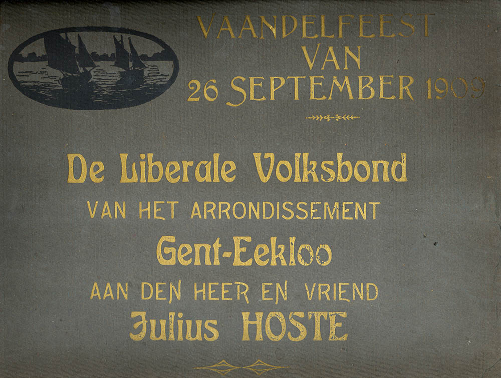 De Liberale Volksbond van het arrondissement Gent-Eeklo organiseerde op 26 september 1909 een reeks feestelijkheden om zijn nieuwe vlag in te huldigen. De collega's van Help U Zelve Antwerpen waren te gast in Gent. Het evenement werd belangrijk genoeg geacht om uitgebreid op foto vast te leggen. De foto's uit dit album opgedragen aan Julius Hoste tonen het banket en de stoet op de Kouter, evenals de vooraanstaande deelnemers, waaronder volksvertegenwoordiger Arthur Buysse, voorzitter van de Volksbond, en leden van de Liberale Associatie. The Liberale Volksbond of Ghent-Eeklo organised on 26 September 1909 grand festivities to inaugurate their new banner. A fellow-organisation from Antwerp, Help U Zelve, took part in the celebrations in the city centre. The photos in the album were dedicated to Julius Hoste and show banquet scenes and parades with liberal personalities like MP Arthur Buysse, president of the Volksbond. Photographer unknown. Liberaal Archief / Collectie Fotoalbums. Liberaal Archief Kramersplein 23 9000 Gent